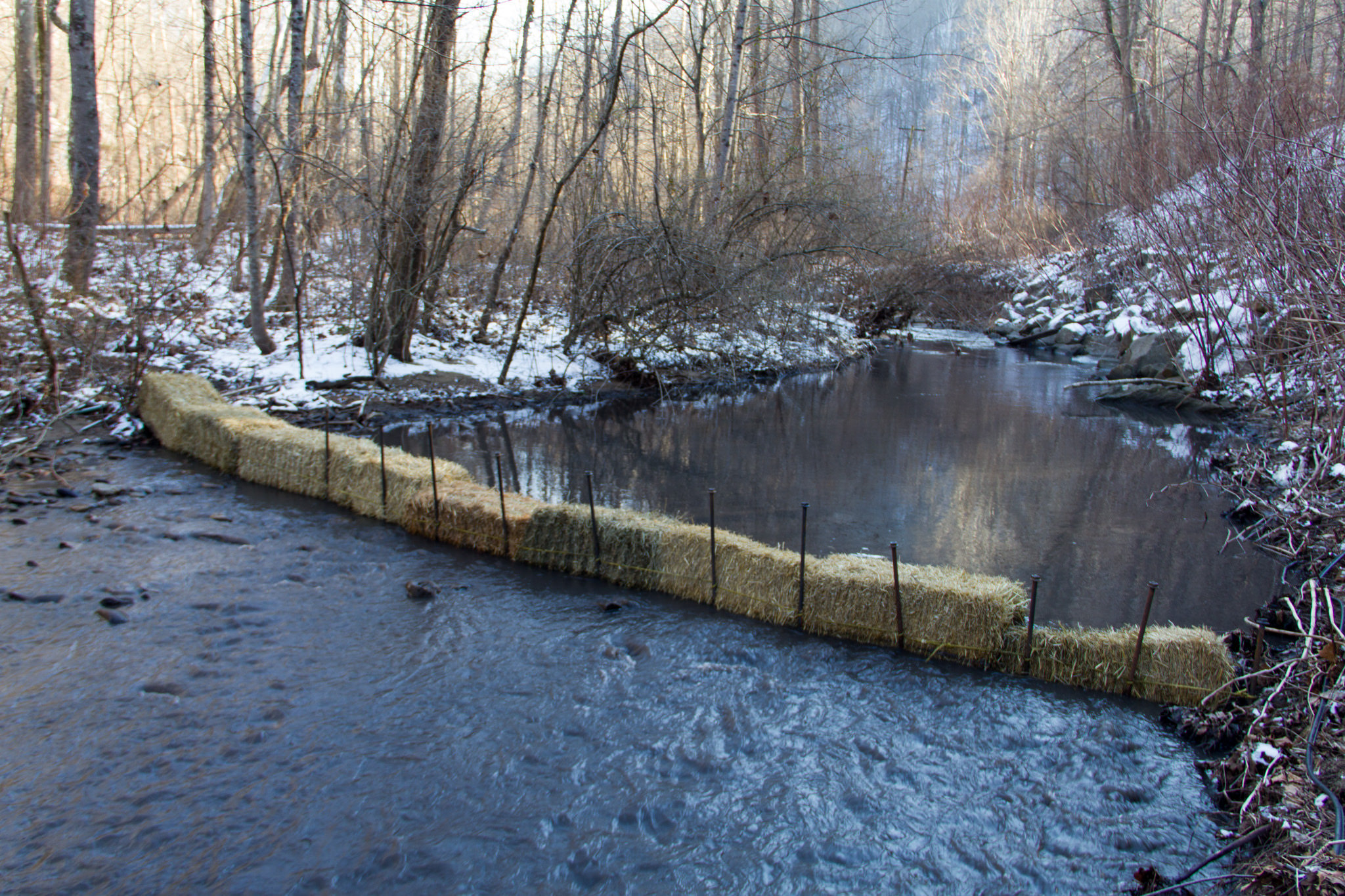 Impoundment of a coal slurry spill with a barrier across the river. According to a news site, this seems to be Fields Creek.